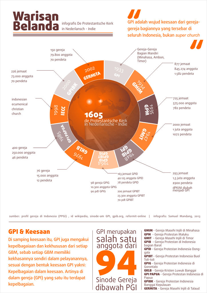 The infographics on the development of de Protestansche Kerk in Nederlandsch-Indie into Gereja Protestan Indonesia and the respected Individual part Churches